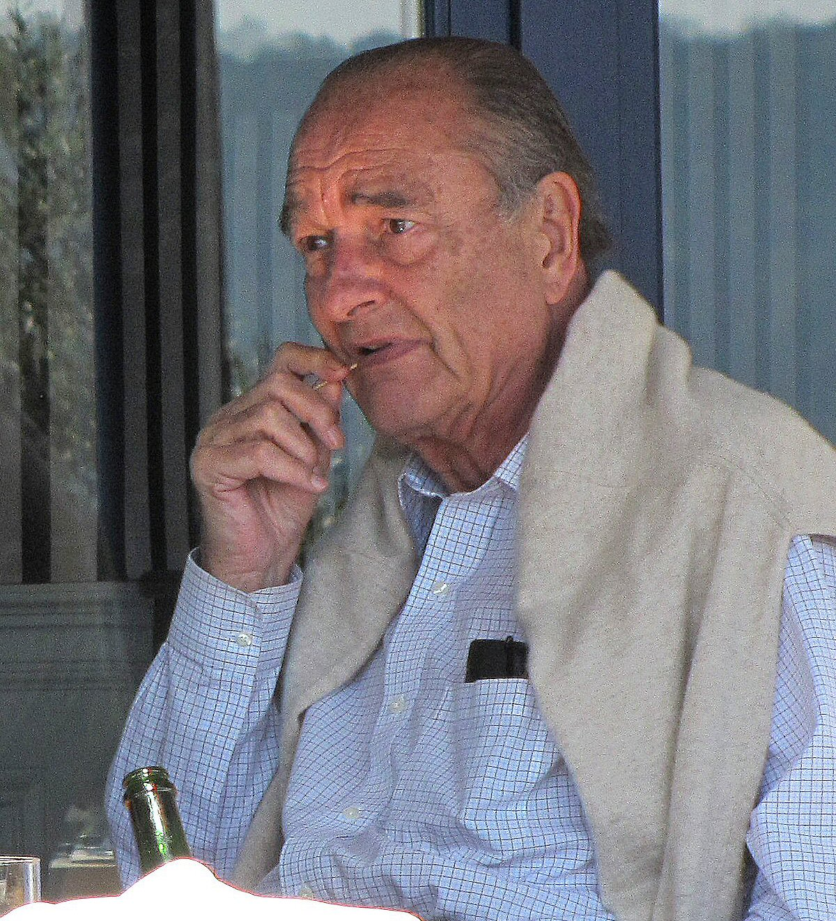 Jacques Chirac having lunch in Dinard, France, Sept 2010